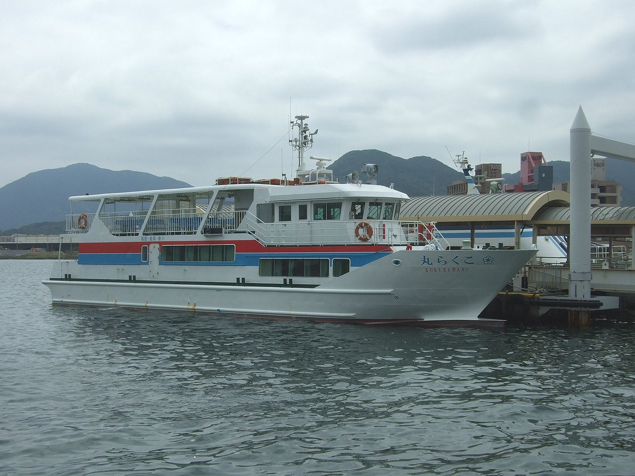 Kitakyushu City Municipal Ferry "Kokura-Maru" / at Kokura Port, Kokurakita Ward, Kitakyushu City, Fukuoka, Japan.